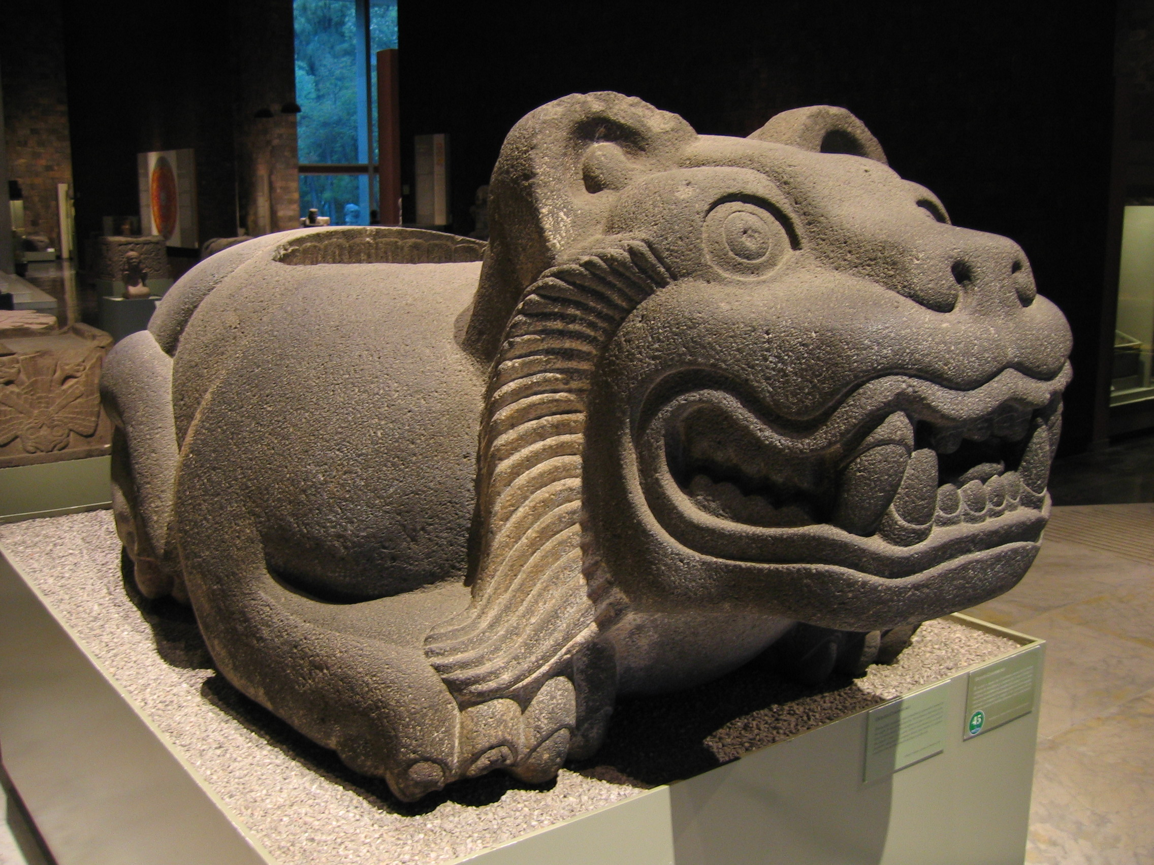 Collection of Museo Nacional de Antropología, Mexico City. Originally uploaded to: A cuauhxicalli or quauhxicalli, meaning "Eagle gourd bowl" in Nahuatl, was an altar-like stone vessel used by the Aztecs to contain human hearts extracted in sacrificial ceremonies. A cuahxicalli would often be decorated with animal motifs, commonly eagles or jaguars. Another kind of cuauhxicalli is the Chacmool-type which is shaped as a reclining person holding a bowl on his belly. From Wikipedia.